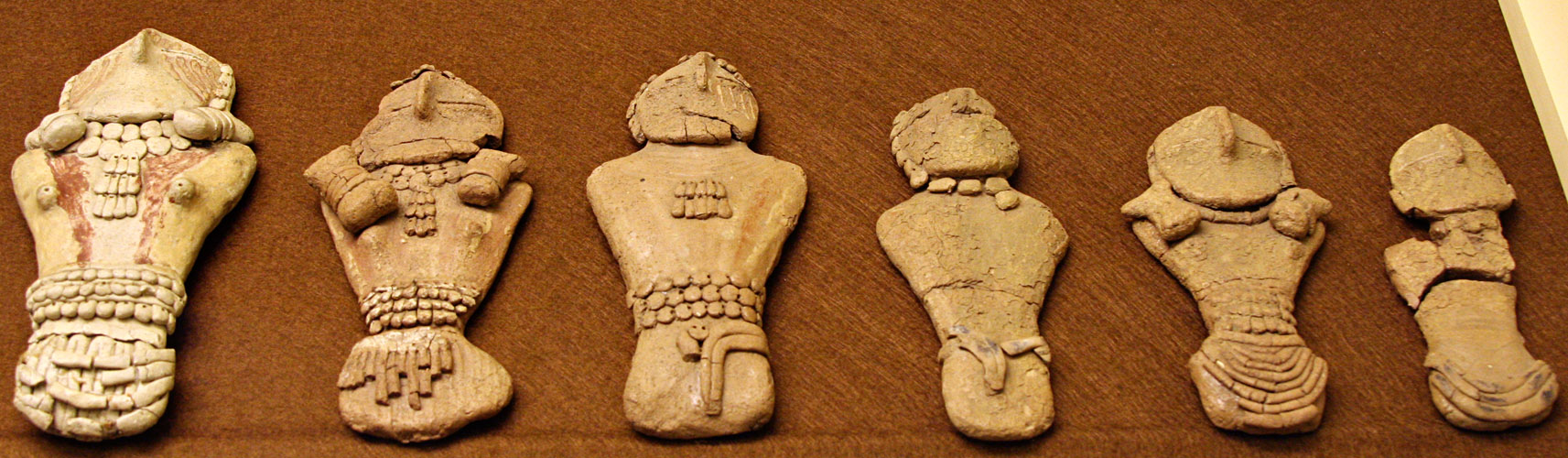 Image of some of the Pilling Figurines. Unfired clay figurines found in a side canyon of Range Creek Canyon in Utah by Clarence Pilling. From the Fremont culture of Native Americans. The figurines are currently on display at the College of Eastern Utah Prehistoric Museum (Price, Utah) where this picture was taken.